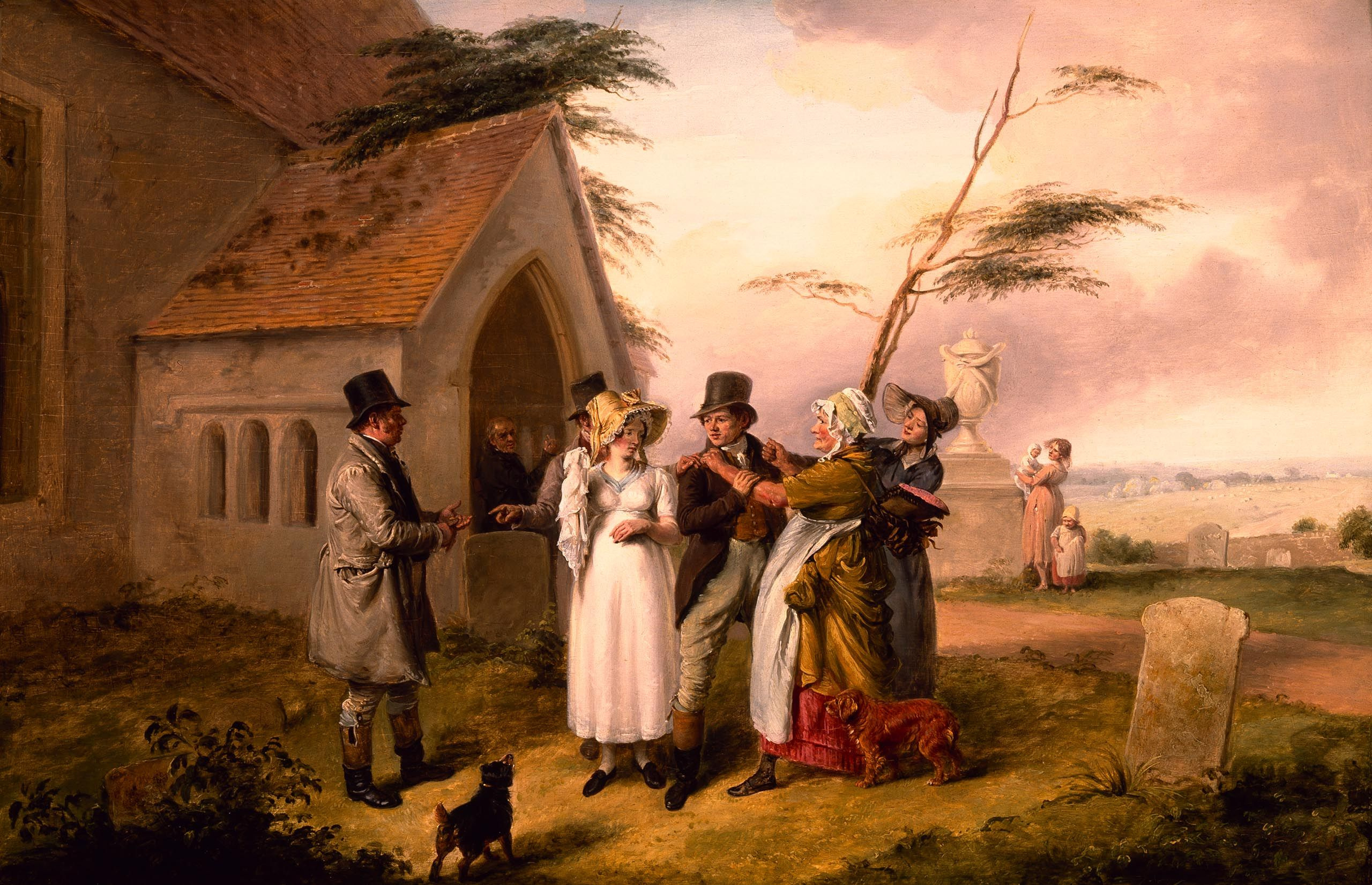 The Interrupted Wedding. Oil on Panel. Signed and indistinctly dated. Inscribed: "Windsor". 13 3/4 x 21 in (34.9 x 53.3 cm).